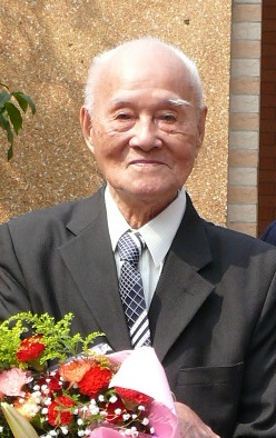 Professor Chang Hung-ta received the Outstanding Scholars Award of Sun Yat-sen University on 10 Nov 2009